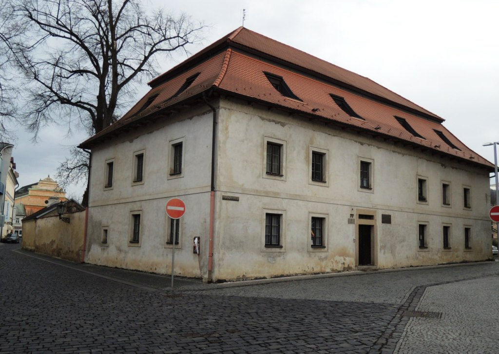 Mladá Boleslav former printing house of the Czech Brethren